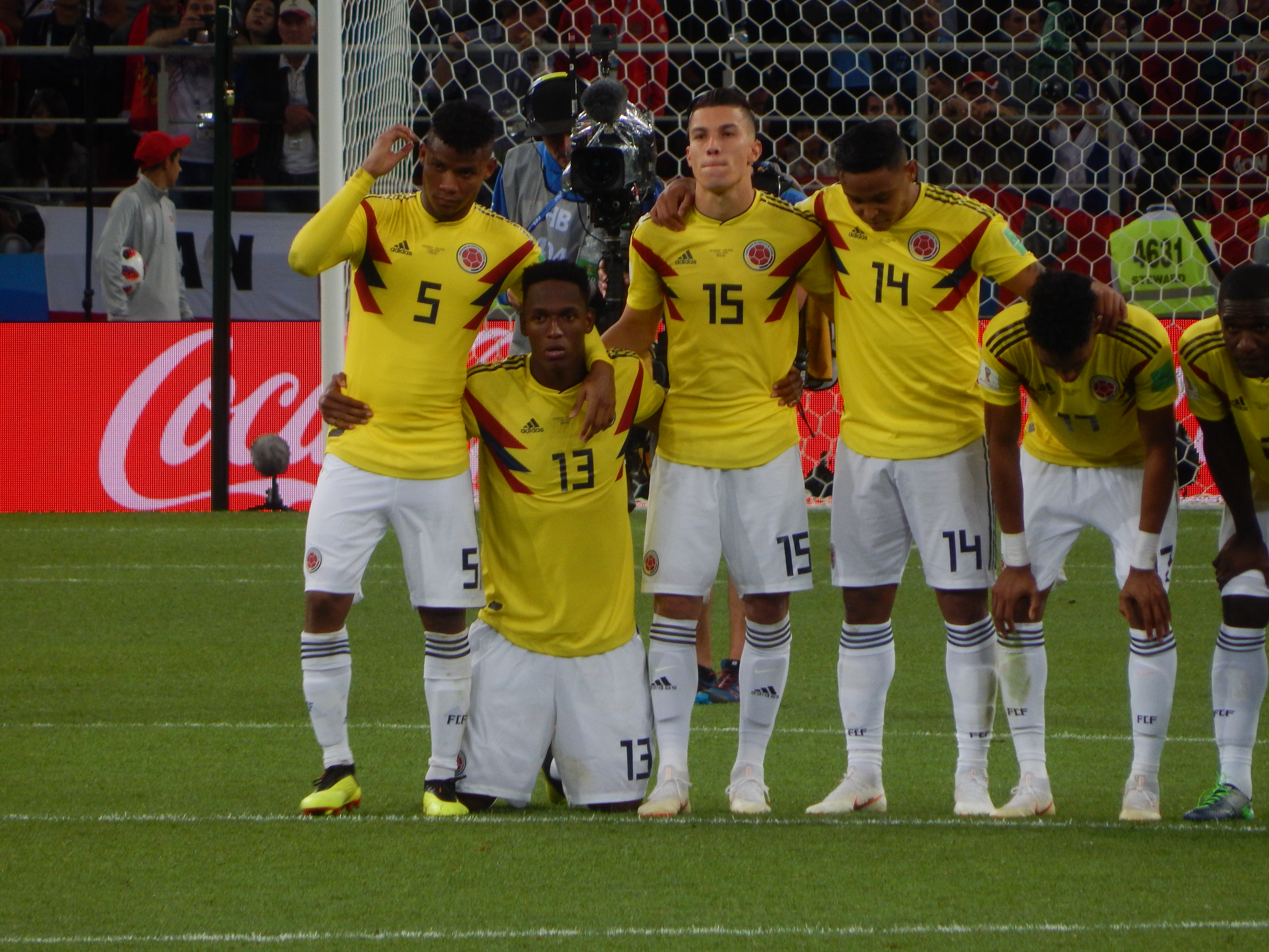 FIFA World Cup 2018, Round of 16, Colombia vs. England